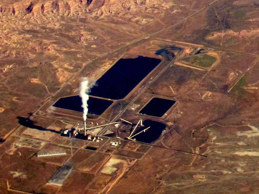 Bonanza Power Plant in Uintah County, Utah. Owned by the Deseret Power Electric Cooperative.